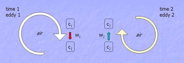 Drawing of eddies passing measurement point. Original Power Point image create by George Burba.